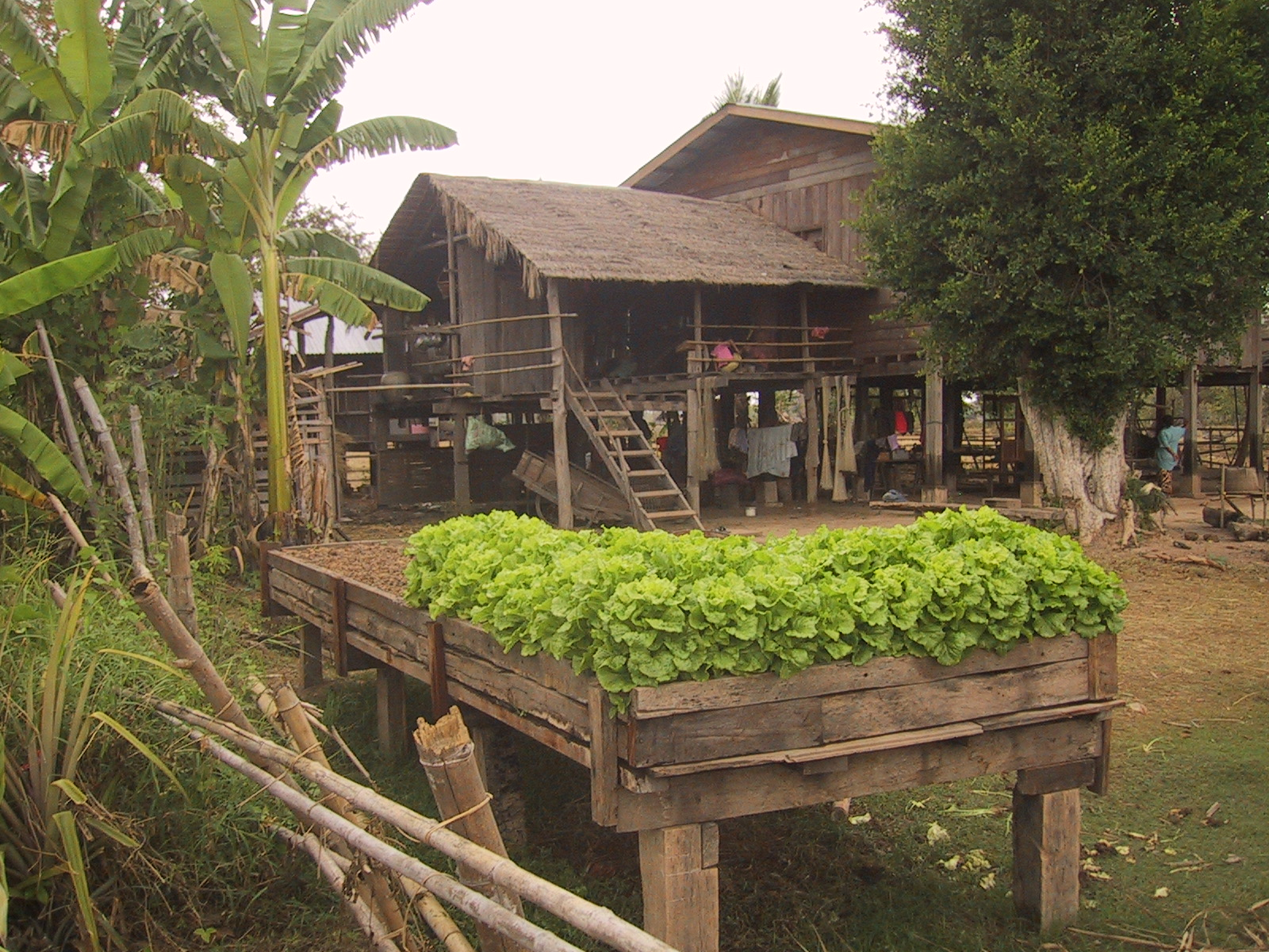 Green lettuce in a kitchen garden in Don Det in Laos in front of a wooden stilt house